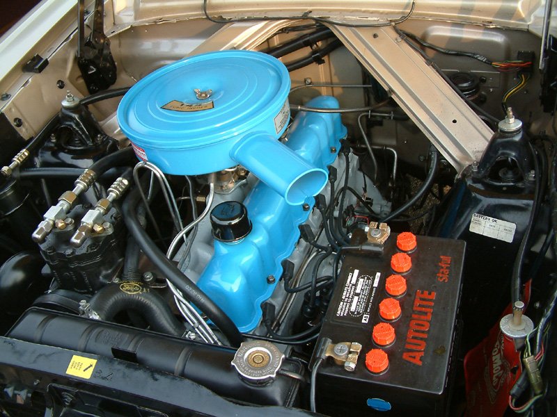 Front driver's side view of a Ford six-cylinder engine or motor. Seen here is a 144 cu in straight-six in a 1964 Ford Falcon. The photo was taken on July 26, 2006 by Bill Wrigley.